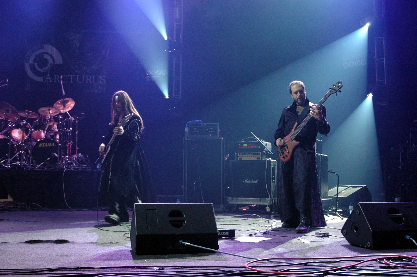 Arcturus band at Metalmania Festival 2005 in Poland - from left: Jan Axel "Hellhammer" Blomberg, Knut Magne Valle, Hugh "Skoll" Mingay